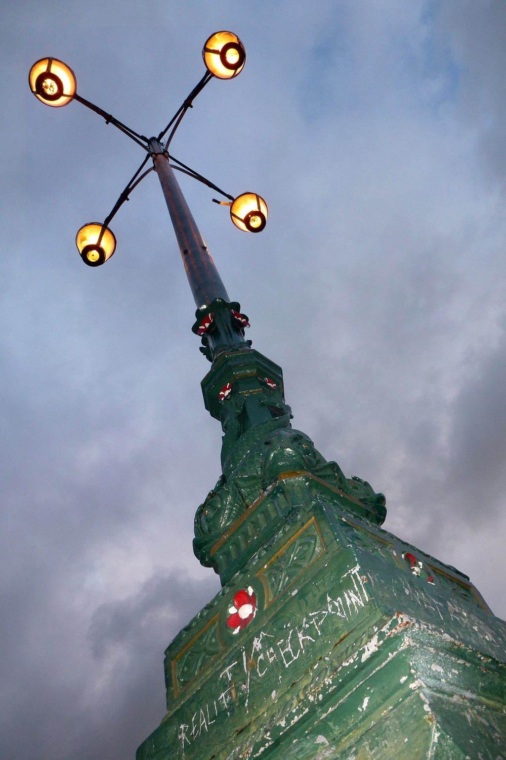 Detail of graffiti on the Reality Checkpoint lamp-post in Cambridge, England.